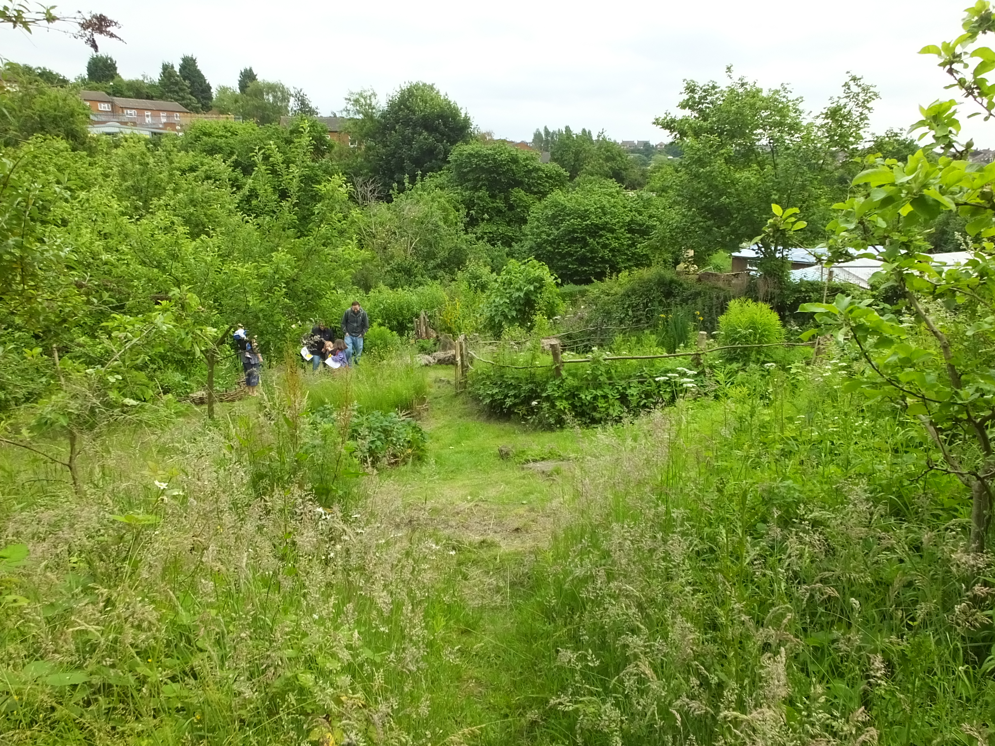 St Ann's Community Orchard, Nottingham, is part of the St Ann's allotments (geotags approximate! ) In the orchard is a trail